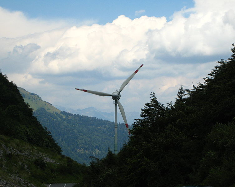 a Wind Generator in Austria, in Ploccen Pass (Passo Monte Croce Carnico), as seen from Italy